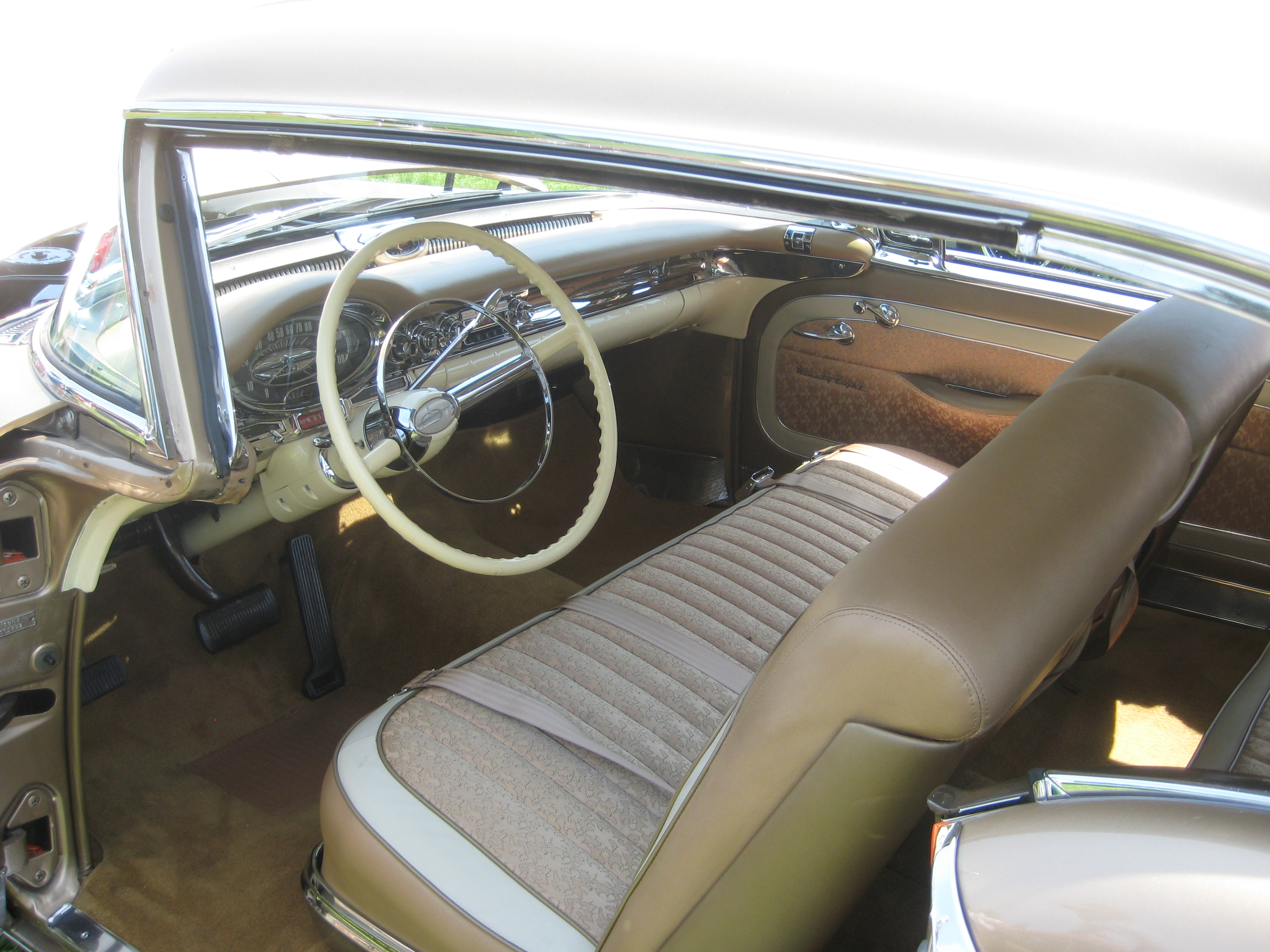 1957 Oldsmobile 98 Starfire Holiday (Hardtop) Coupe interior